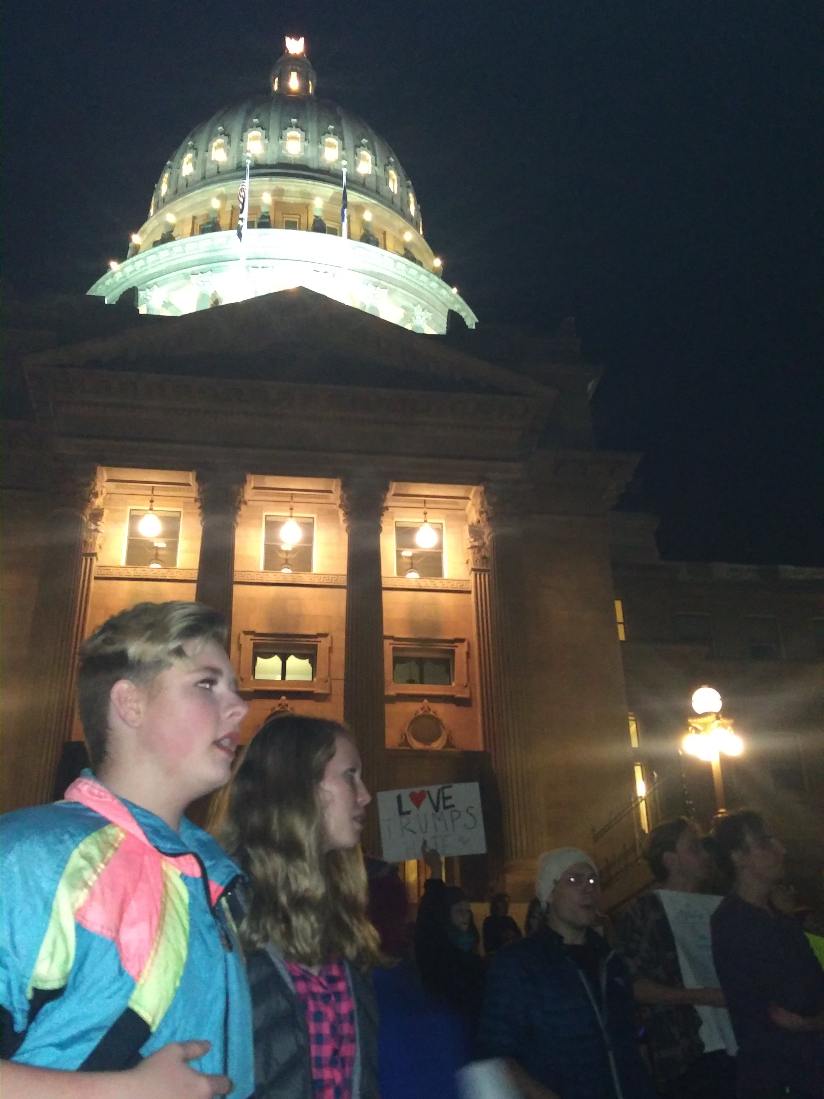 A nighttime anti-Trump protest held on the steps of the Idaho capitol.